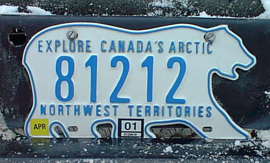 Northwest Territories license plate